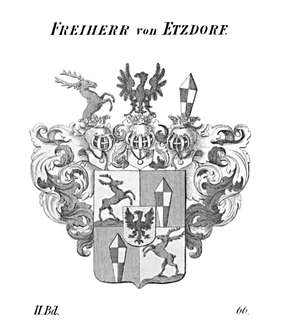 Coat of arms of Etzdorf (Barons)